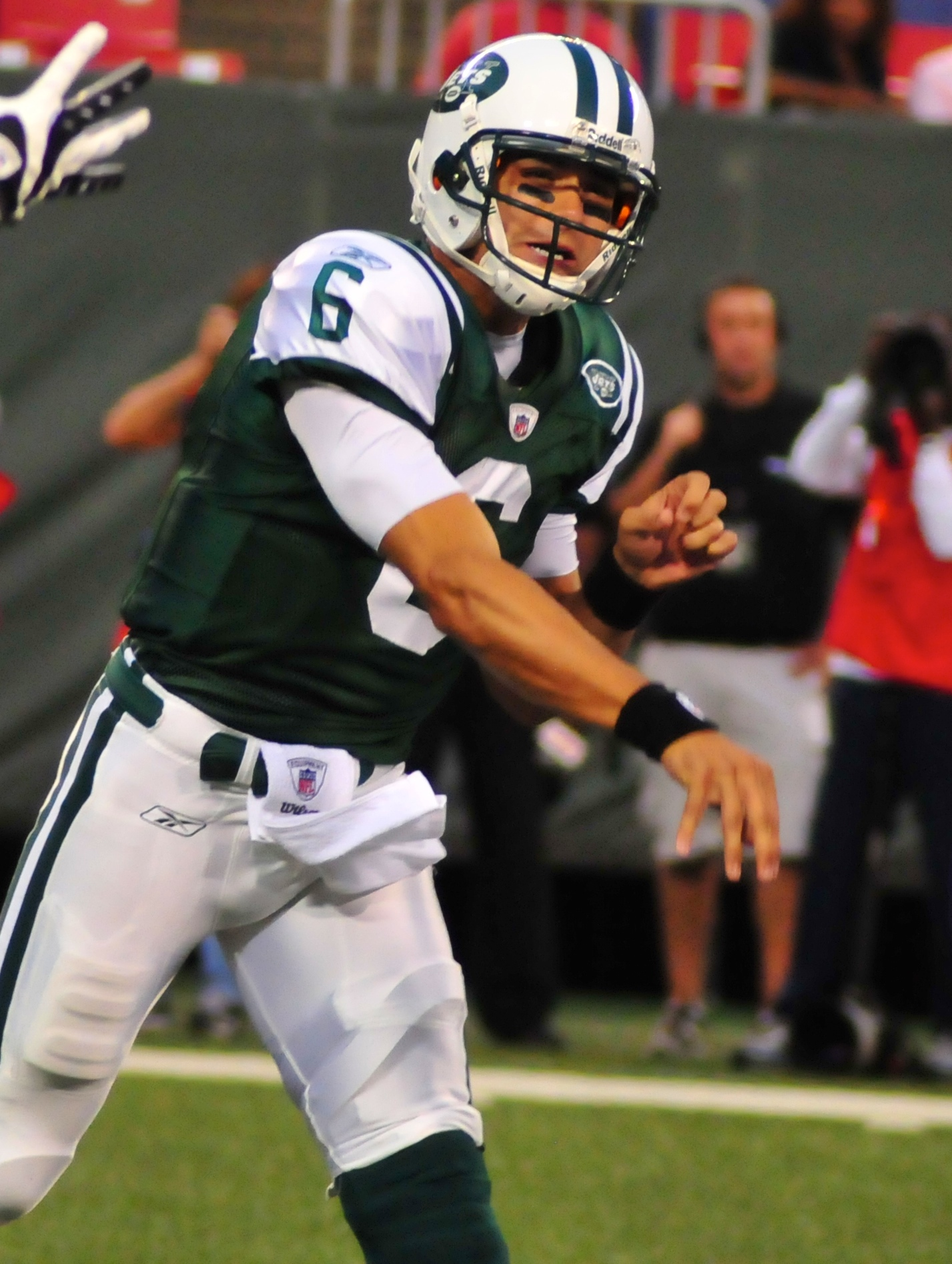 Mark Sanchez after throwing a pass during the Jets vs. Eagles preseason game.